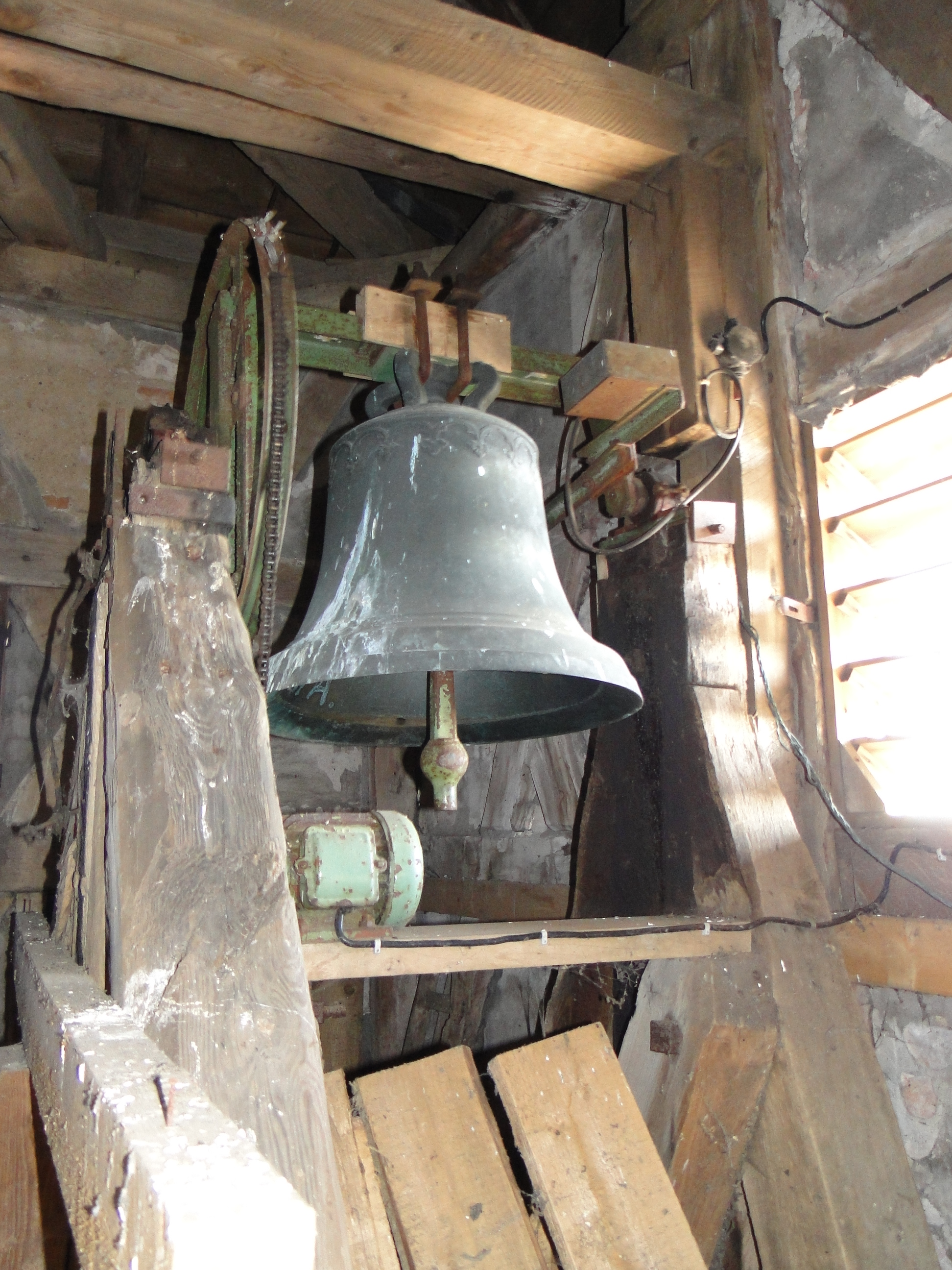 Church in Woosten, district Ludwigslust-Parchim, Mecklenburg-Vorpommern, Germany